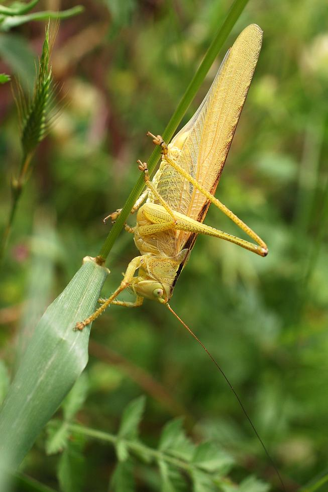 Yellow green tettigonia